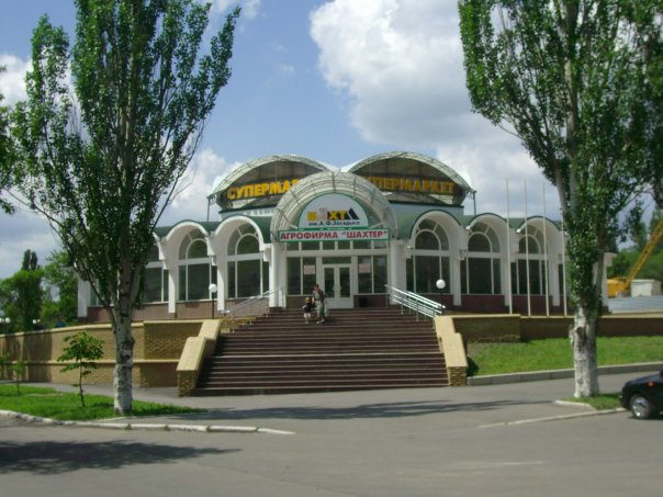 агрофирма